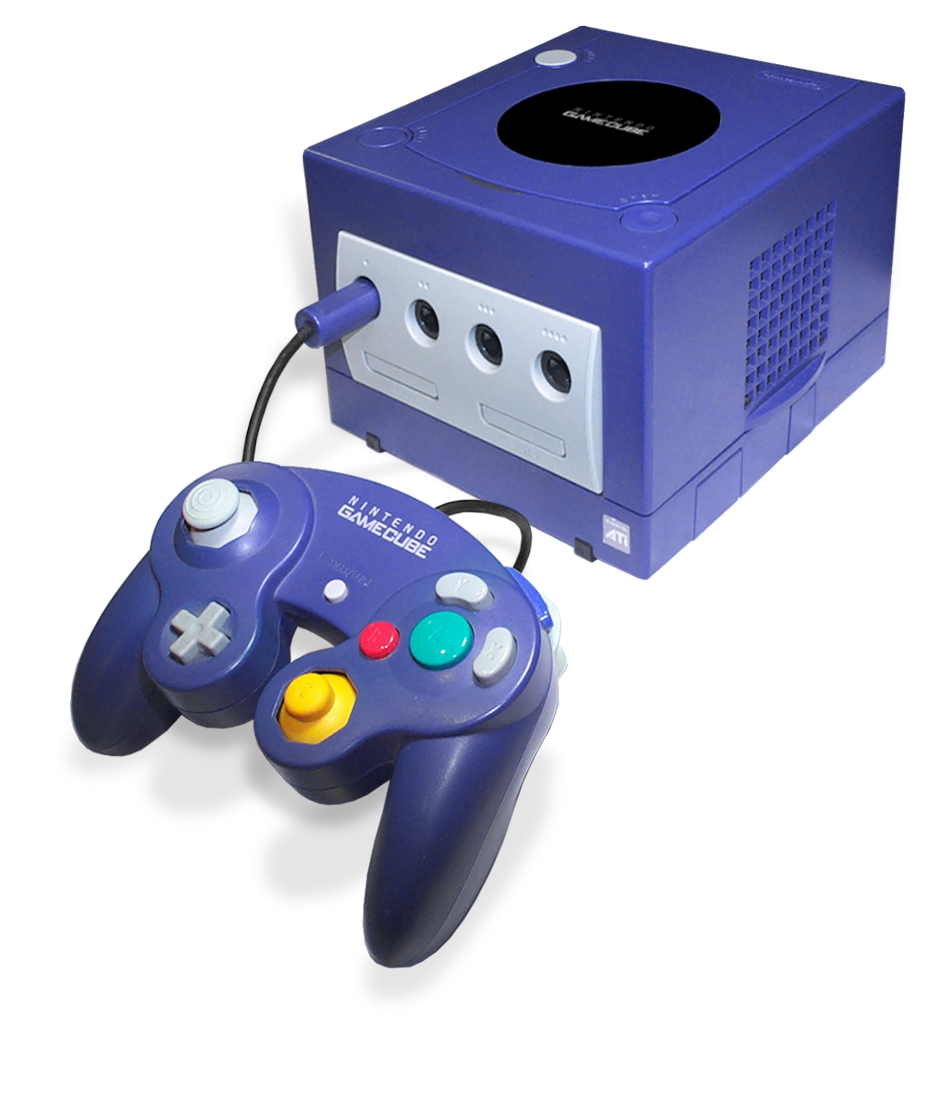 Nintendo GameCube console & controller